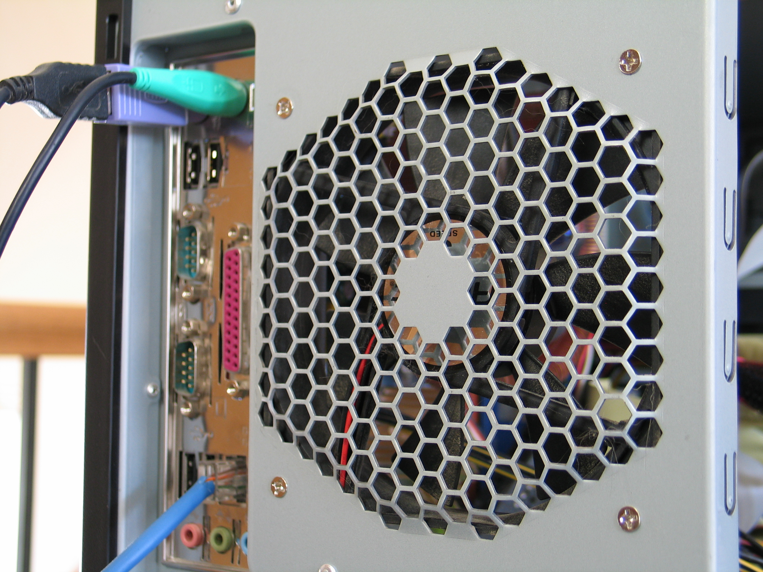 The honeycomb grille used to reduce airflow noise in a silent PC.